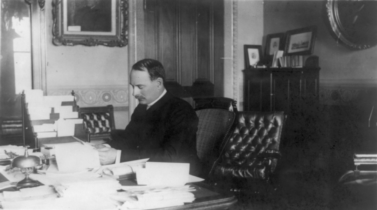 William Collins Whitney (1841-1904)